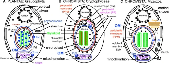 Structure of typical chromists in comparison with plant cell (left)